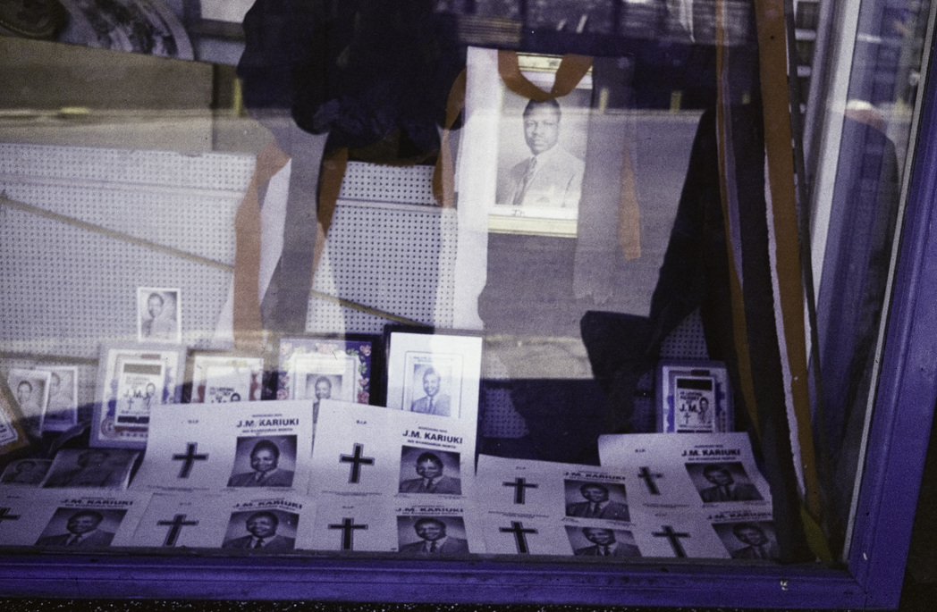 Mourning shop window display and notice with a portrait and a cross for politician Josiah Mwangi Kariuki, murdered in 1975.